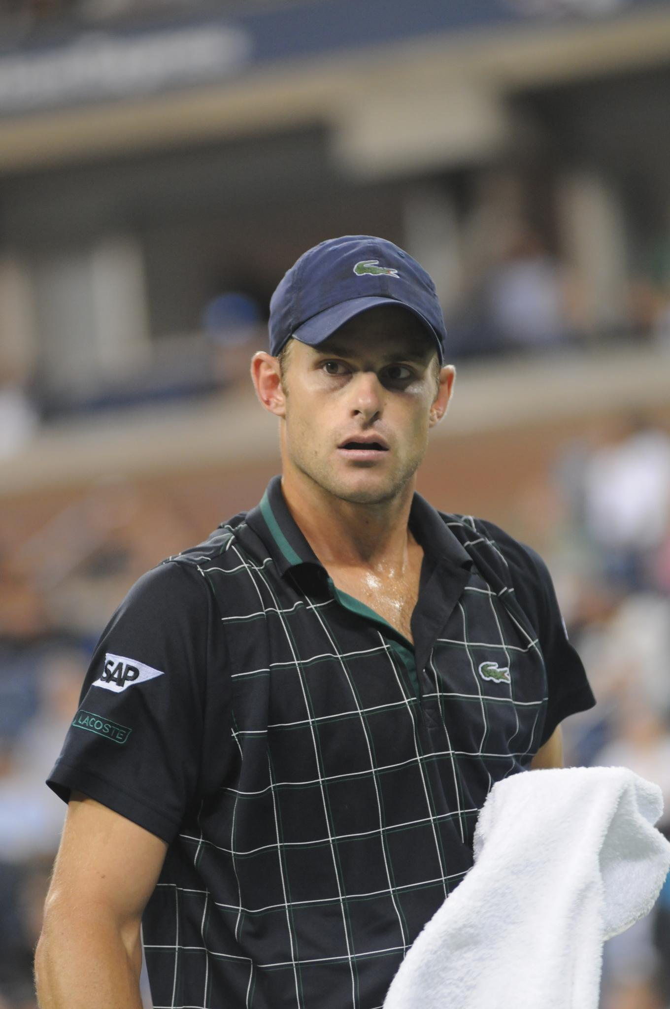 Andy Roddick on the opening day of the 2009 US Open